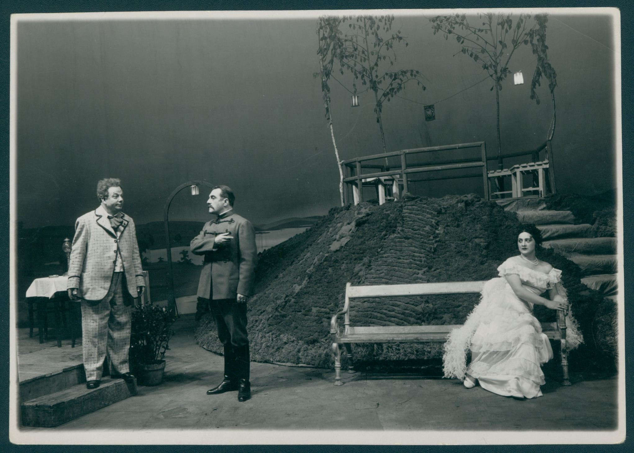 Bulgarian actress Petya Gerganova in the role of Larisa in Without a Dowry by Alexander Ostrovsky, director: Nikolay O. Masalitinov